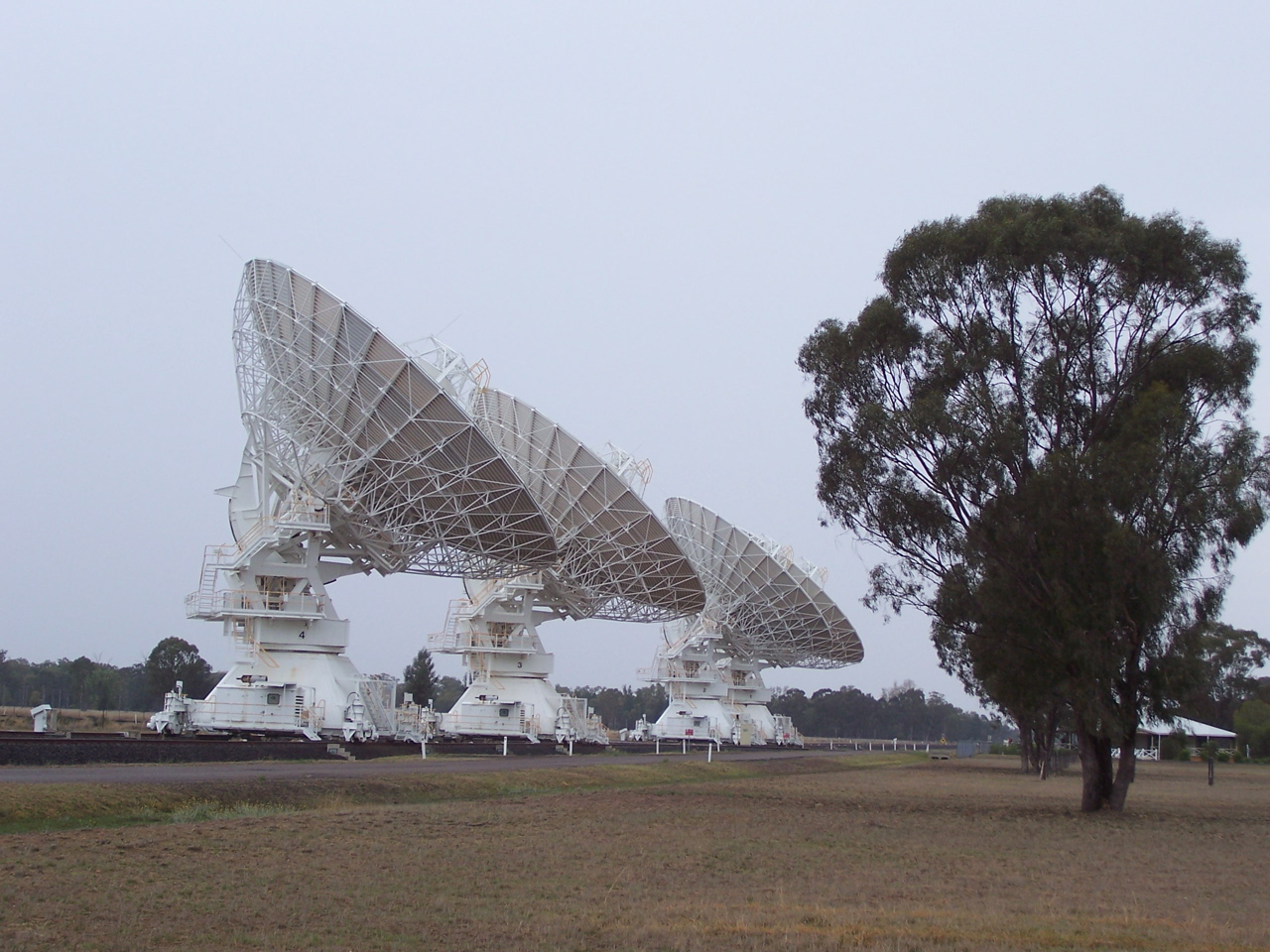 But still, what a pretty view.